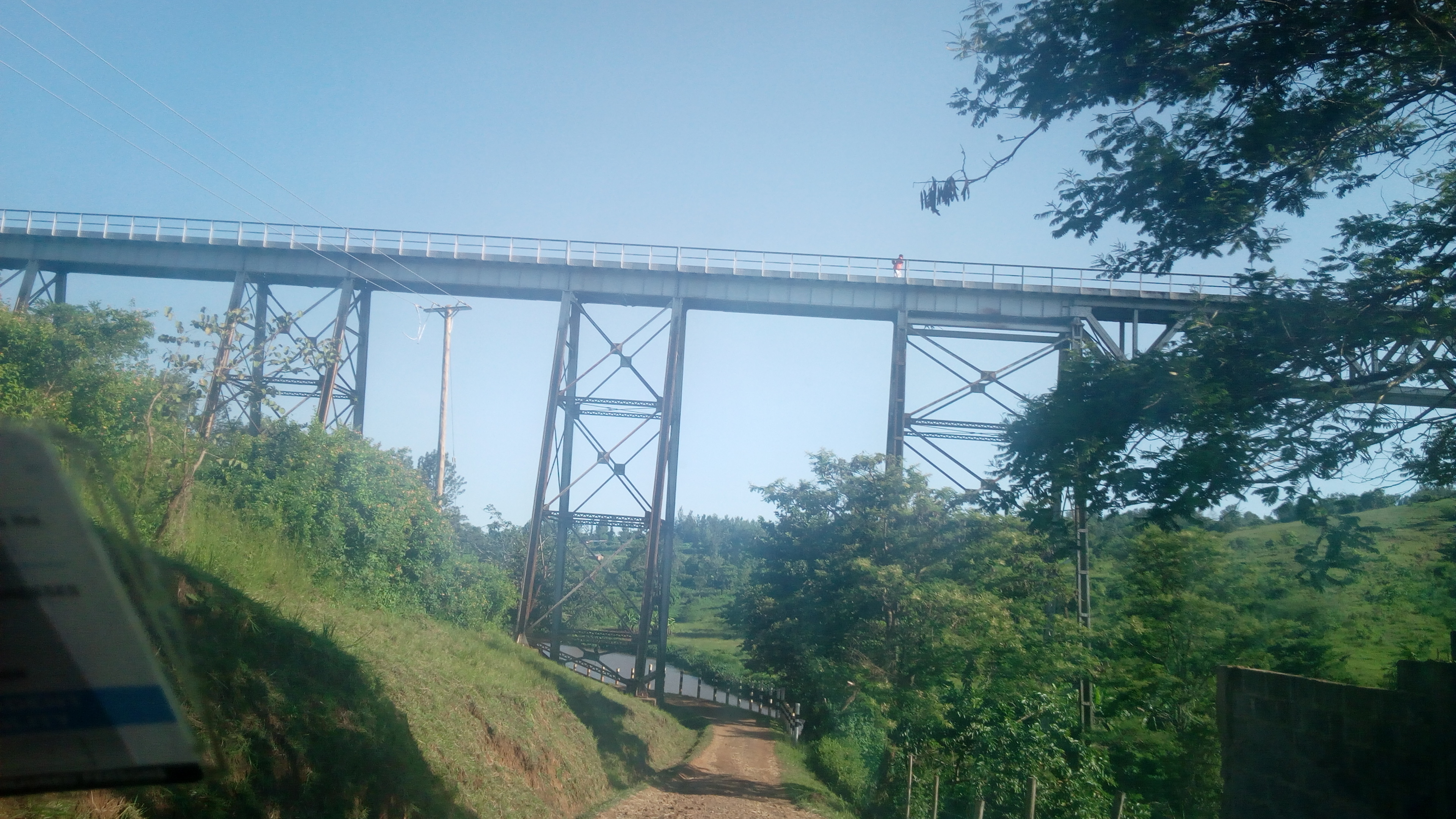 Built by the Kenyan colonial government in the first half of the 20th century, the railway line to Murang'a town was one of the most important forms of transport in the country's central area. Due to the rough terrain, engineers had to come up with cutting-edge engineering solutions of the time such as this 150 metre steel bridge at an elevation of 15 metres from the river. This is an image with the theme "Africa on the Move or Transport" from: Kenya